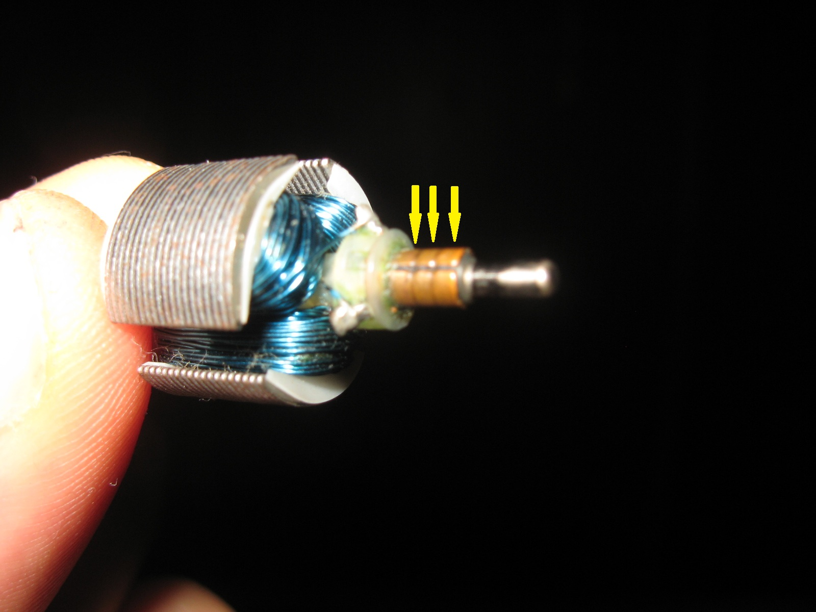 A rotor of a DC motor from a RC toy car. The arrows point the rings, notice they are not continous therefore they are called conmutators. One conmutator for each coil in the rotor.